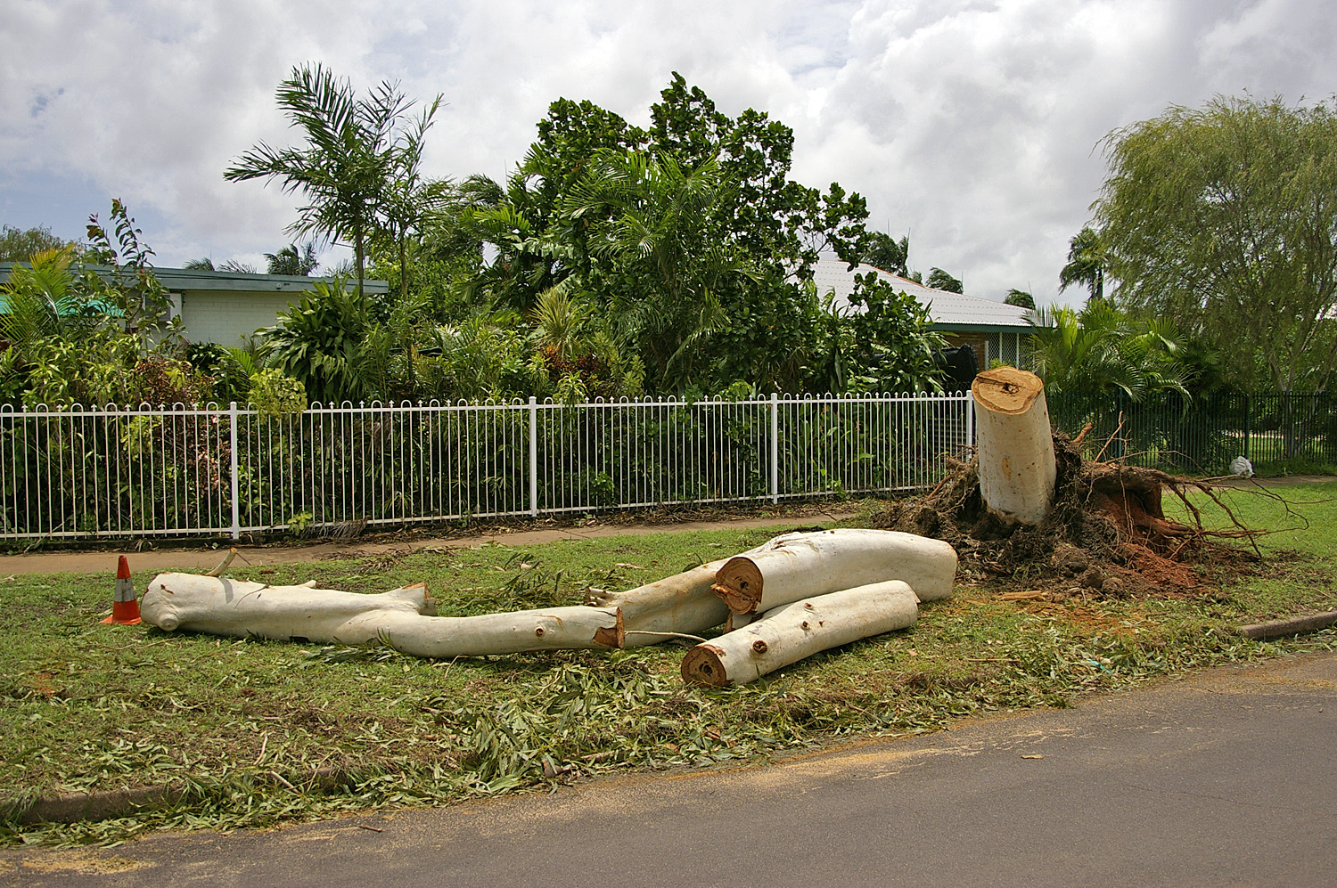 Remains of a large Ghost Gum (Corymbia bella) which was uprooted during Cyclone Helen.